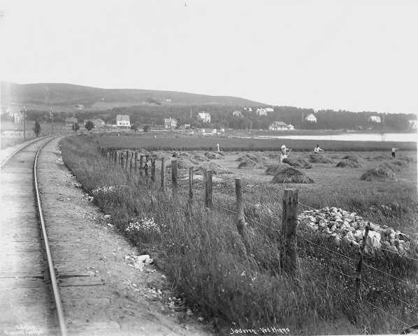 The Jæren Line through Hinna in Stavanger, Norway.